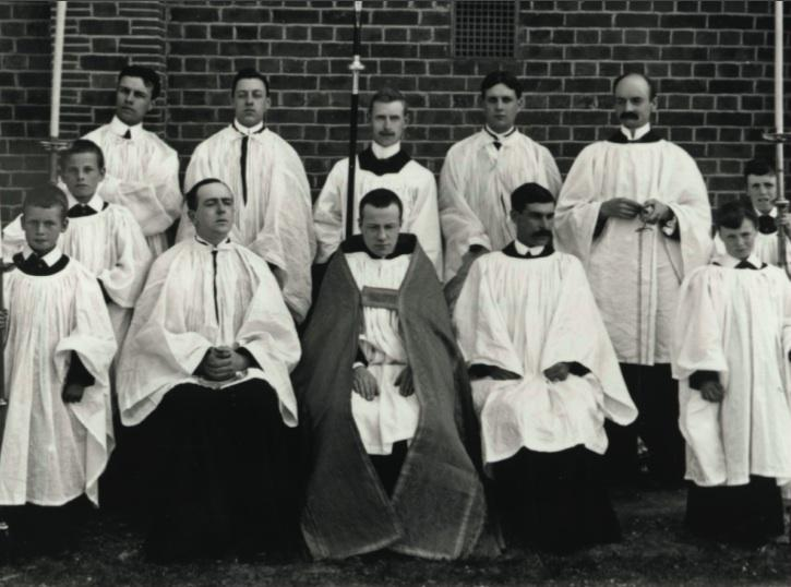 The congregation of St. Hugh's Church, Letchworth; in cope in center is Father Adrian Fortescue (1874 – 1923)